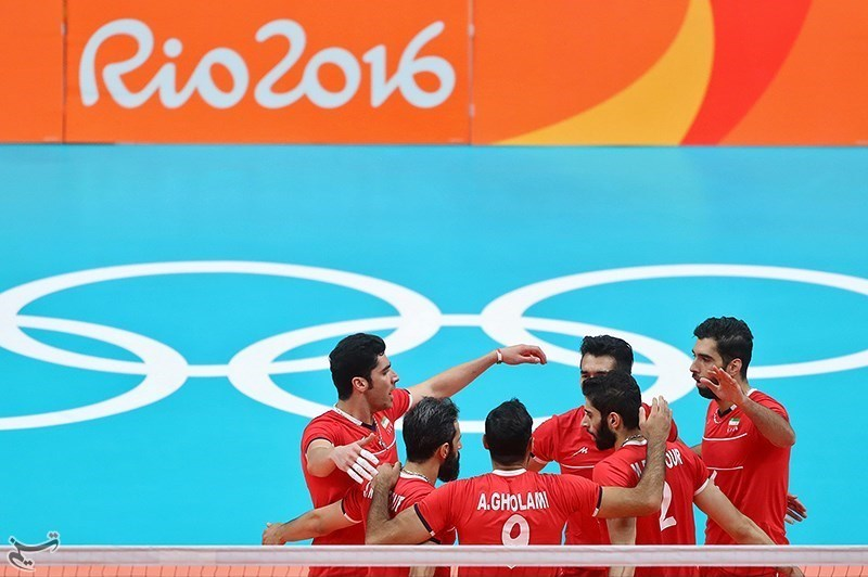 Iran volleyball team at the 2016 Summer Olympics